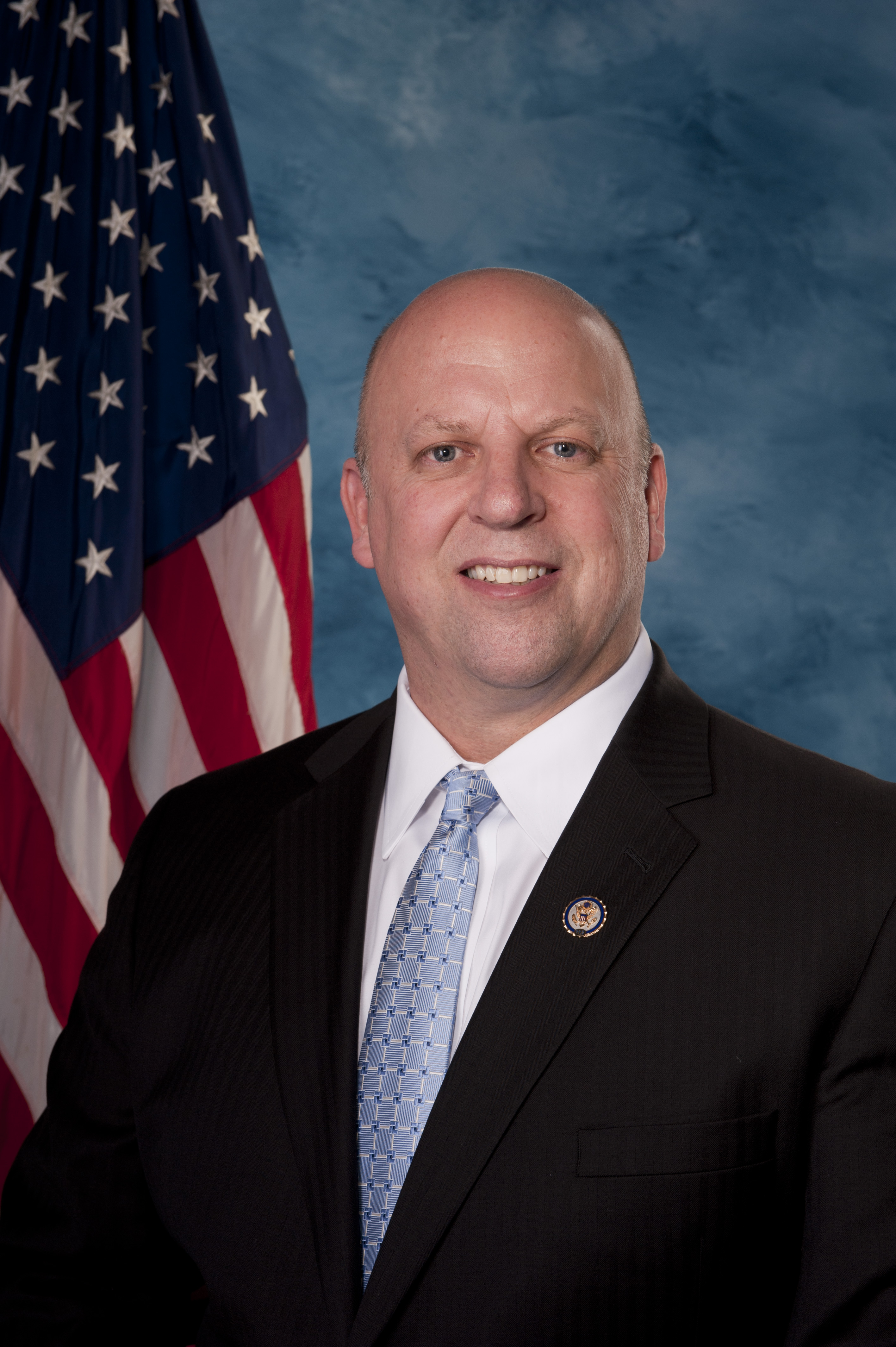 Official portrait of US Rep. Scott DesJarlais